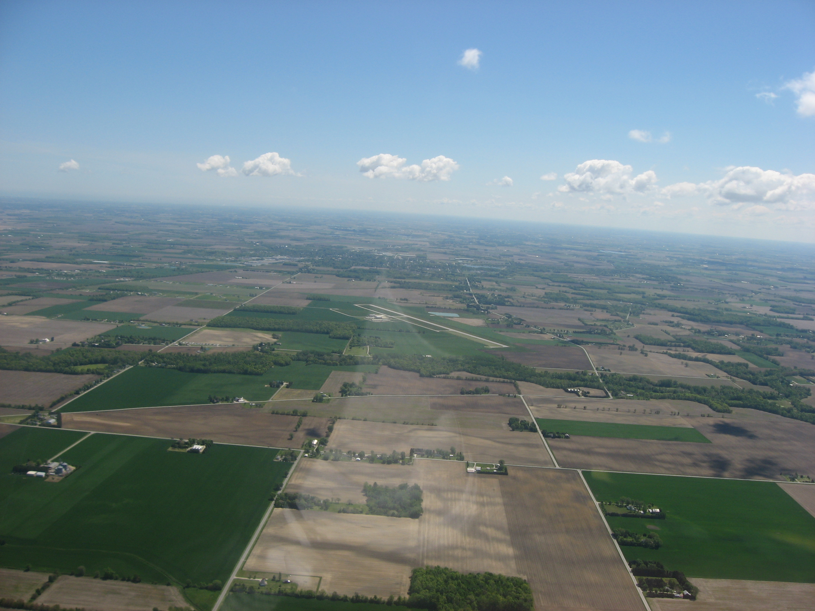 Aerial view of the Sandusky County Regional Airport in western Green Creek Township, Sandusky County, Ohio, United States, with Clyde in the background. Picture taken from a Diamond Eclipse light airplane at an altitude of 3,200 feet MSL and a bearing of approximately 90º.